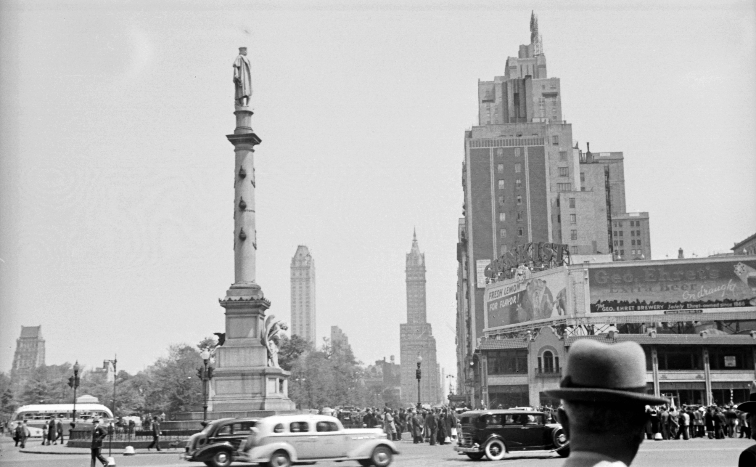 Columbus Circle, Central Park South in the background, view from Broadway. Location: USA, New York Tags: high-rise building, street view Title: Columbus körforgalom, háttérben a Central Park street, a kép a Broadway felől nézve készült.